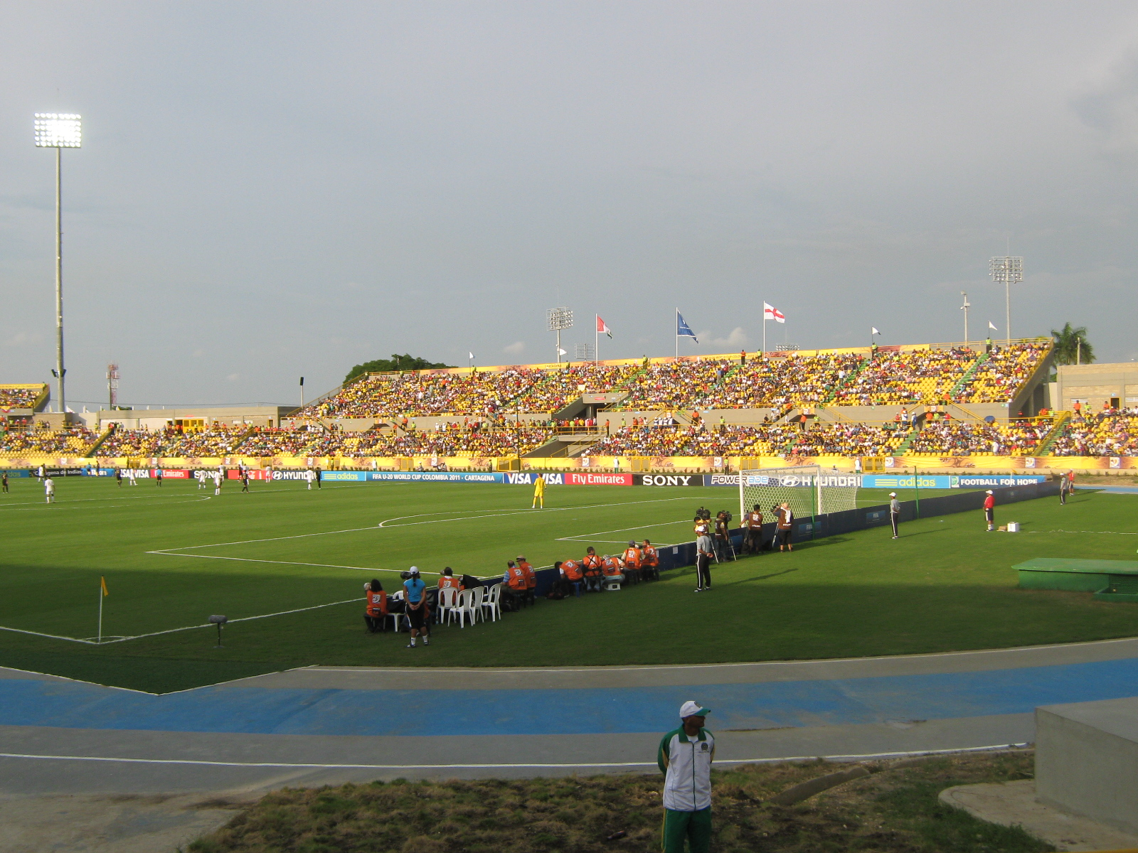 This is a picture of the east stand at Jaime Morón Stadium in Cartagena Colombia